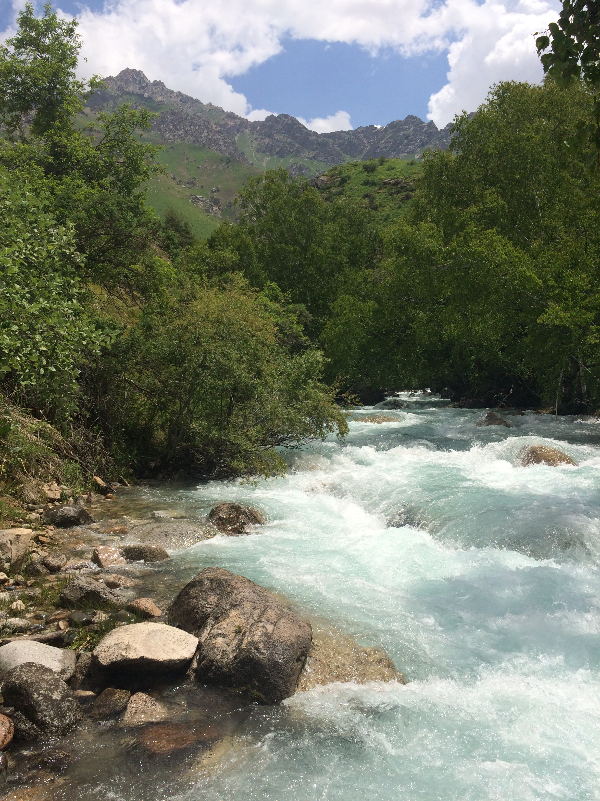 Beshtor river in lower reaches Oʻzbekcha/ўзбекча: Beshtor daryosi quyi oqimida